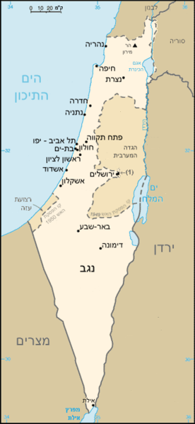 Green line border of Israel